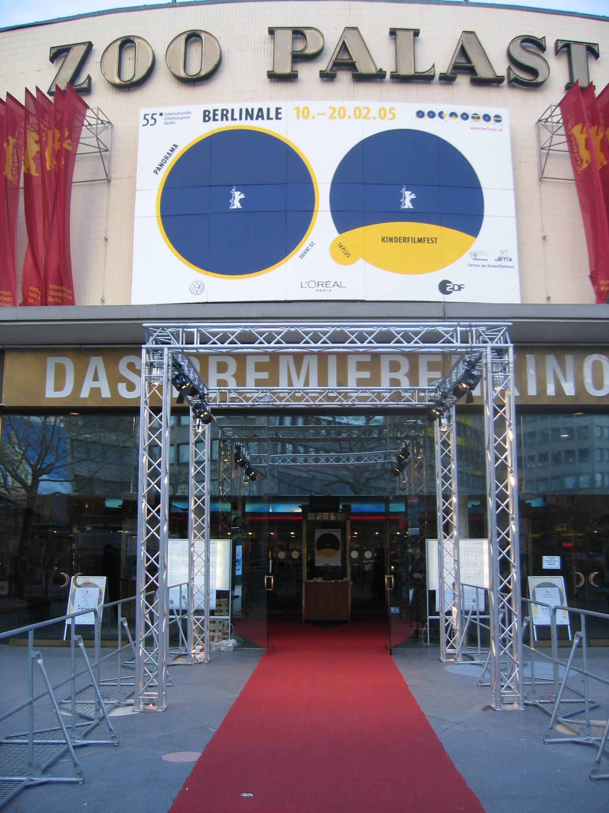 Red carpet for the Berlinale 2005 at the Zoo Palast